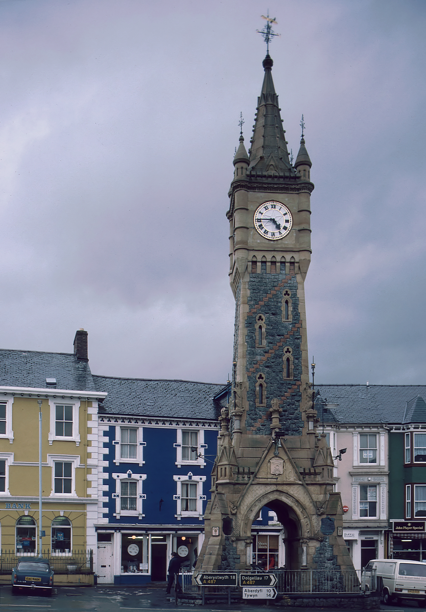 Clock Tower in the village of Machynlleth in Wales/UK